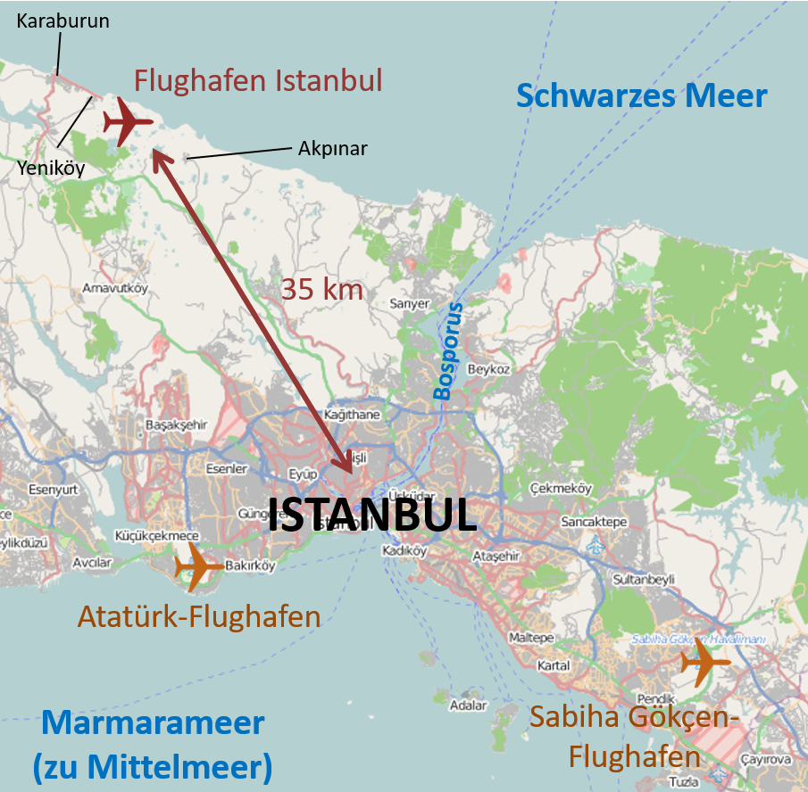 Location of the Istanbul International Airport This map may be incomplete, and may contain errors. Don't rely solely on it for navigation.